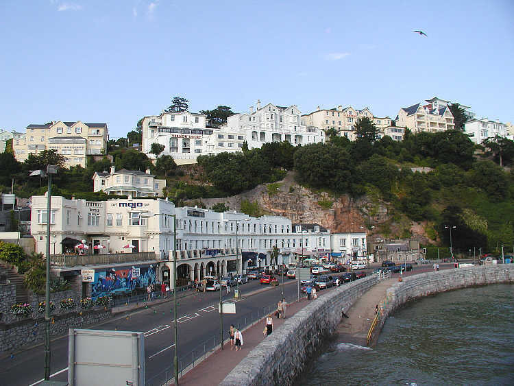 Part of the seafront at Torquay. This 2006 photograph was taken before the fire at the Palm Court Hotel (bottom left, shown here as the Mojo Bar) in December 2010, and the fire at the Conway Court Hotel in December 2011 (top centre right). These buildings were destroyed by the fires and no longer exist. That building has now been taken down and the one next to it. Enjoyed some drinks on the terrace in previous years.